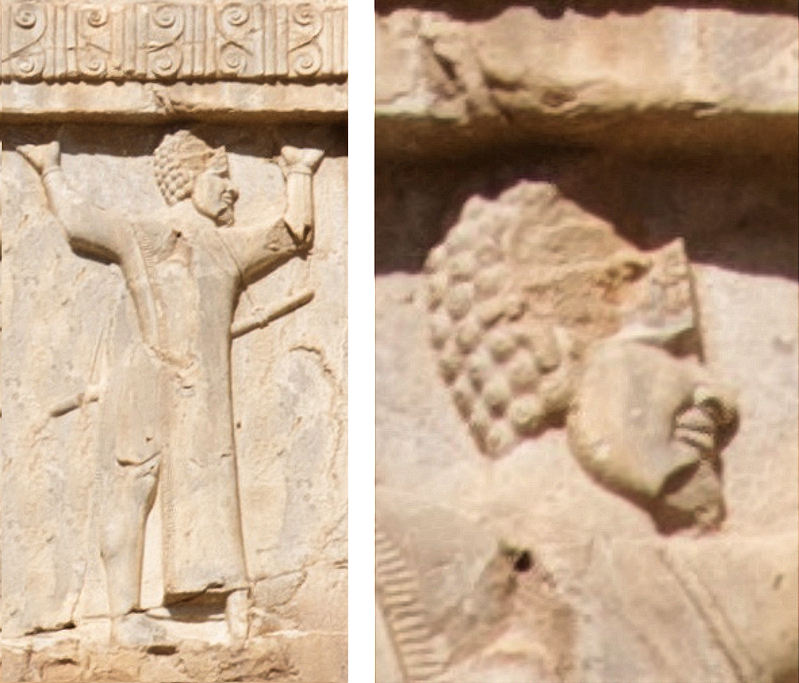 Xerxes detail Ethiopian